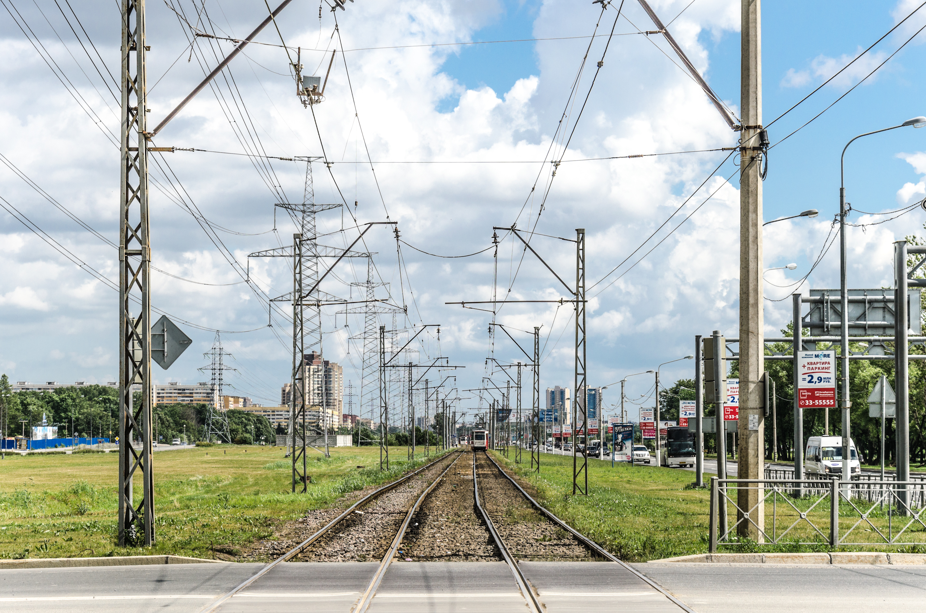 Petergofskoe highway in Saint Petersburg, Russia. Tram ways